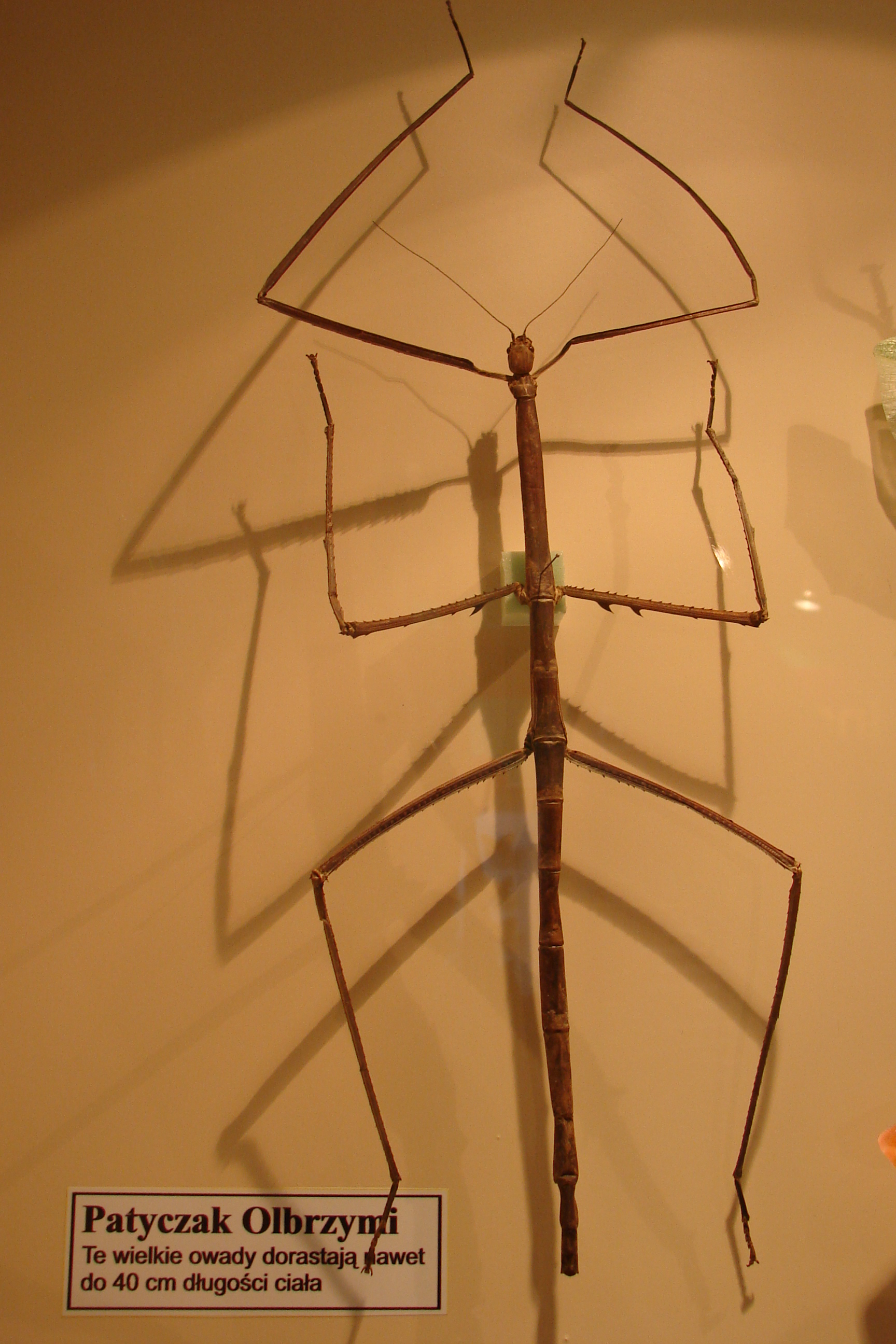 Acrophylla wuelfingi